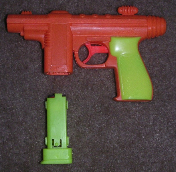 Model RFDS3816 removable-magazine jet-disc "tracer gun"